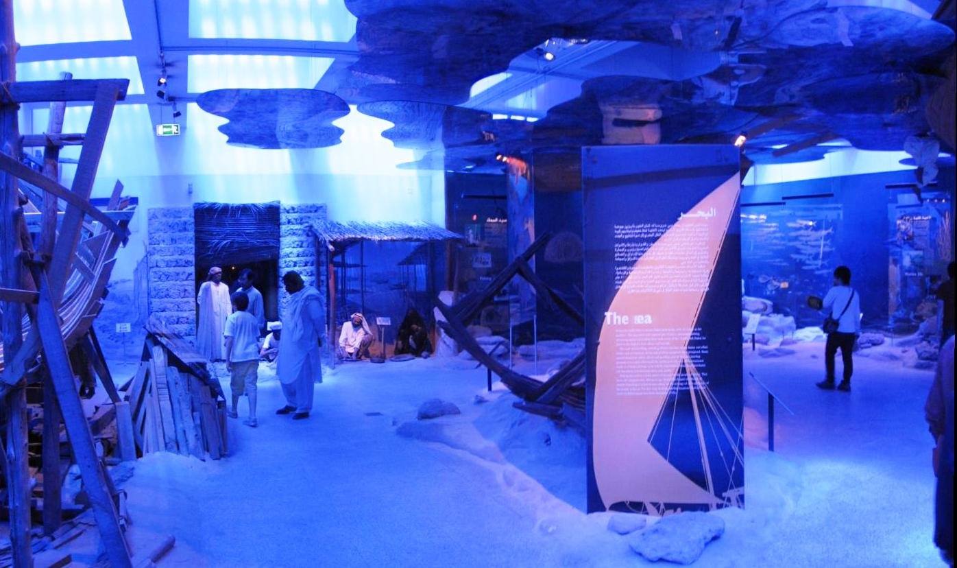 Sea exhibit part of the Dubai Museum.